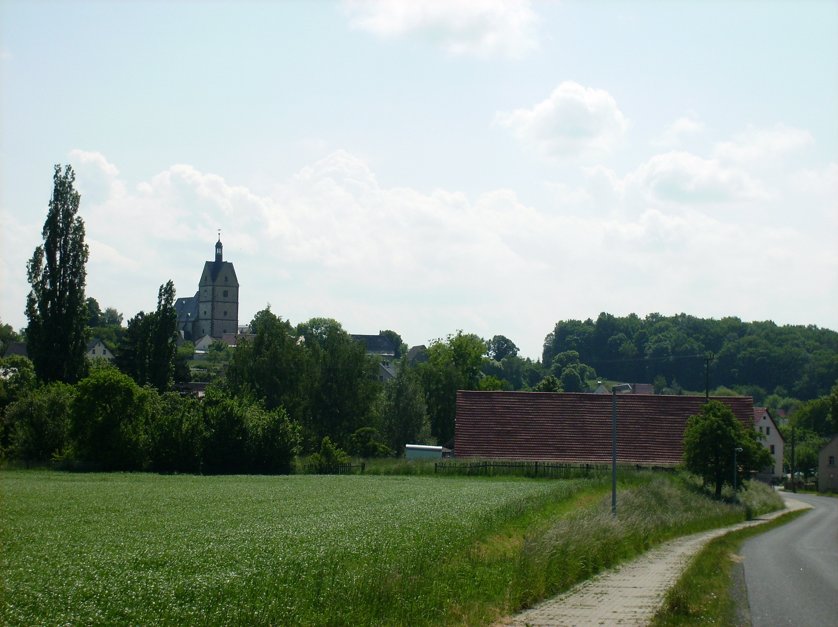 View of the village of Ziegelheim (district of Altenburger Land, Thuringia)